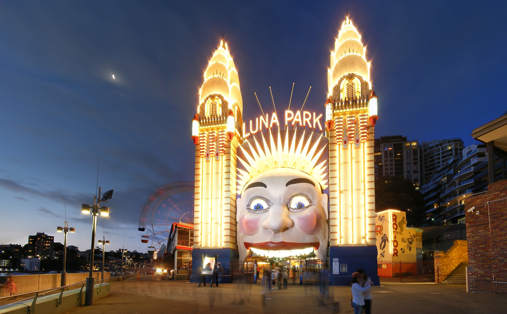 Luna Park Sydney. Image was taken with a Fuji FinePix S5700 S700 camera, valued at $350